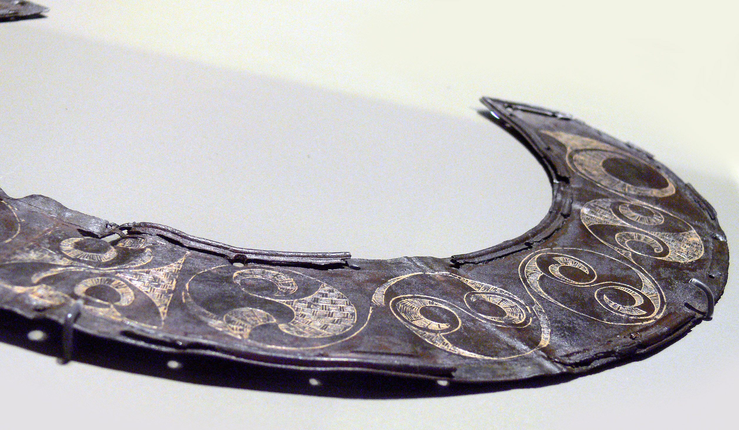 Celtic collar, dated 2nd or 3rd century AD (metal, including copper). photographed at Expo: Celts and Scandinavians, artistic encounters, 7th-12th century, 1st October 2008 - January 12, 2009, Musée National du Moyen-Âge - Thermes et hôtel de Cluny.